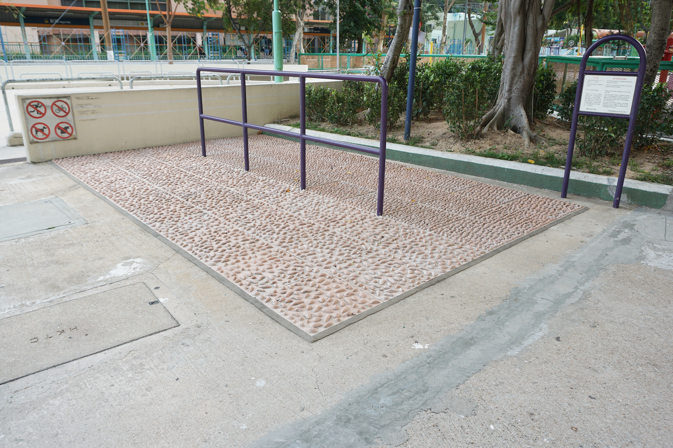 Affluence Garden in Tuen Mun, Hong Kong.